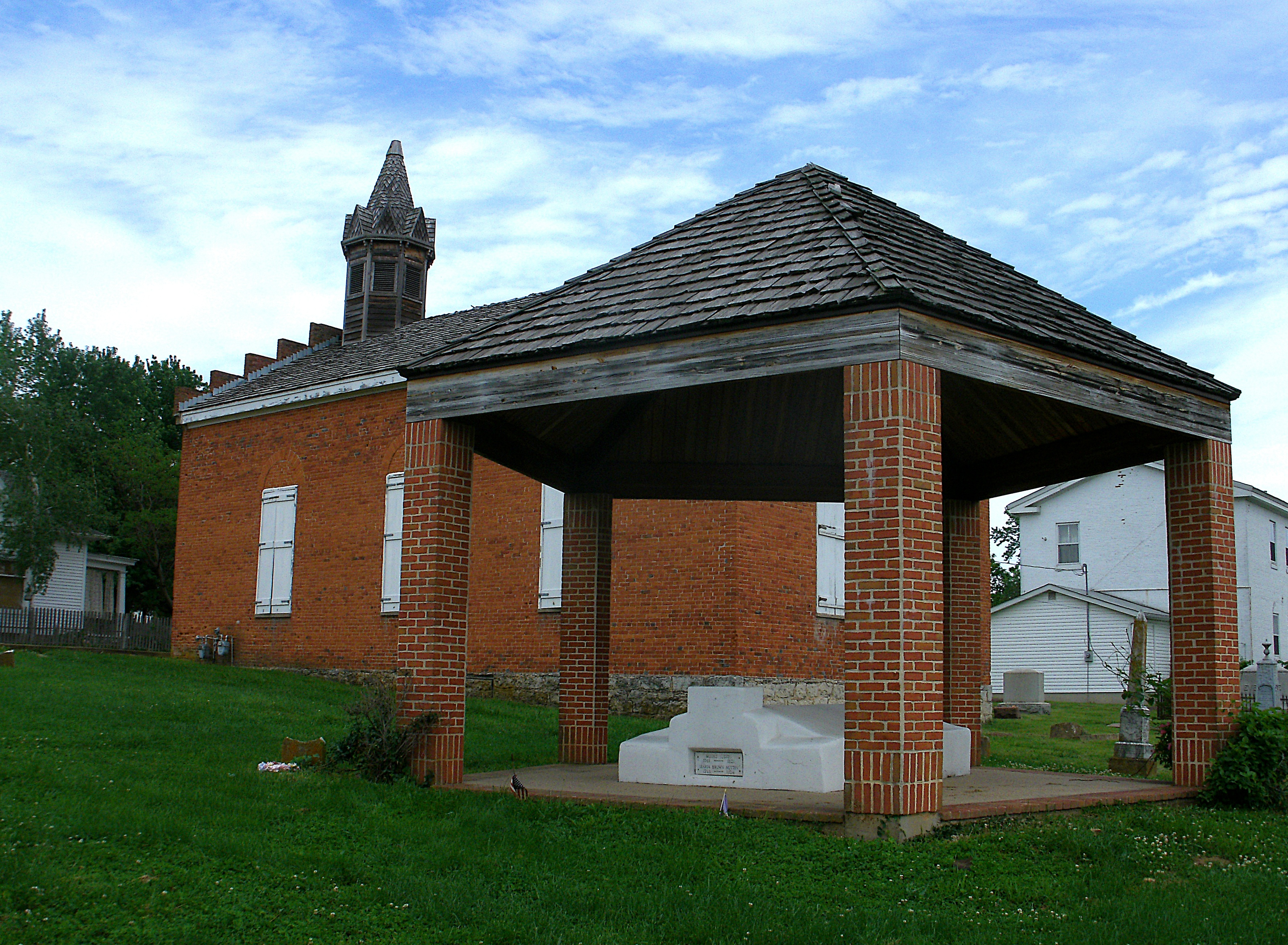 The tomb of Moses Austin (1761-1821) and Maria Brown Austin (1768-1824) in Potosi, Missouri. The tomb is on the grounds of the Presbyterian church built in 1832.